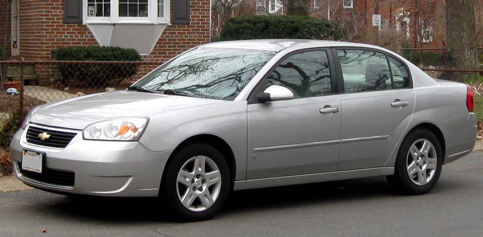 2006-2007 Chevrolet Malibu photographed in Alexandria, Virginia, USA.